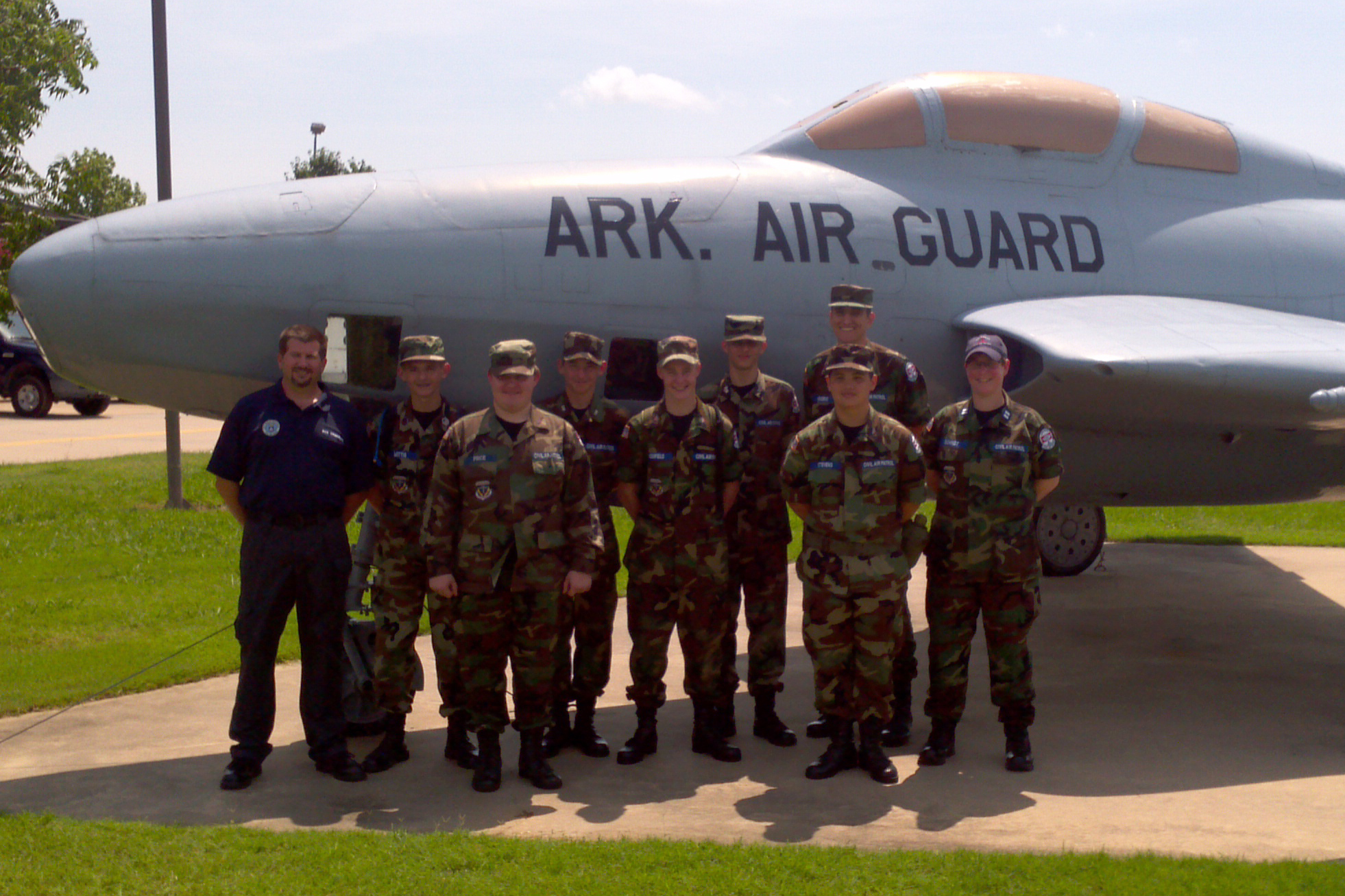 Members of the Civil Air Patrol’s 83rd Composite Squadron based in Fort Smith, Ark., pose for a photo in front of a 188th Fighter Wing RF-84 Thunderflash. Members of the 83rd toured the 188th Fighter Wing June 25. The 83rd members flew in the A-10 Thunderbolt II simulator and also got to view the wing’s Warthogs up close during a tour of the base’s hangar. The 188th flew RF-84Fs from 1957-1970. (U.S. Air National Guard photo by Maj. Heath Allen/188th Fighter Wing)